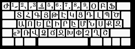 An innovative Armenian keyboard layout designed for higher productivity and speed.